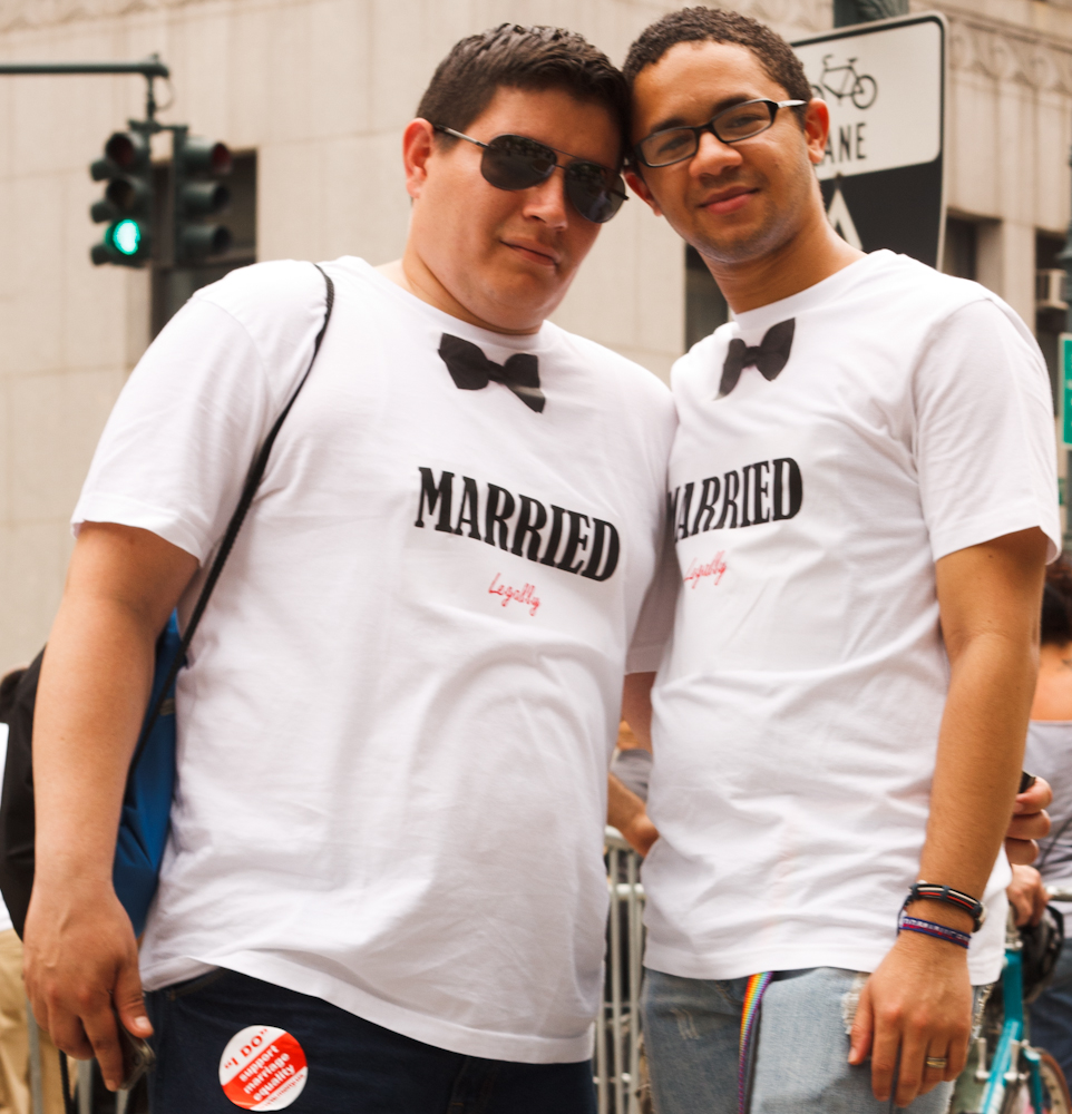 Gay marriage NYC